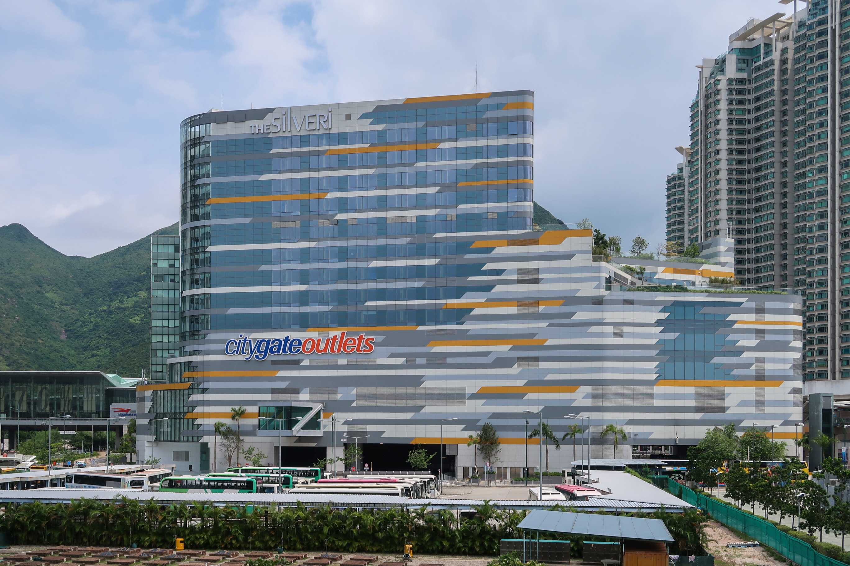 Citygate Outlet Expansion